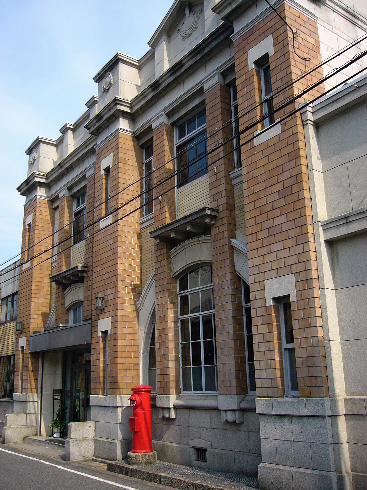 Usukuchi-Tatsuno-Shoyu Museum in Tatsuno, Hyogo prefecture, Japan